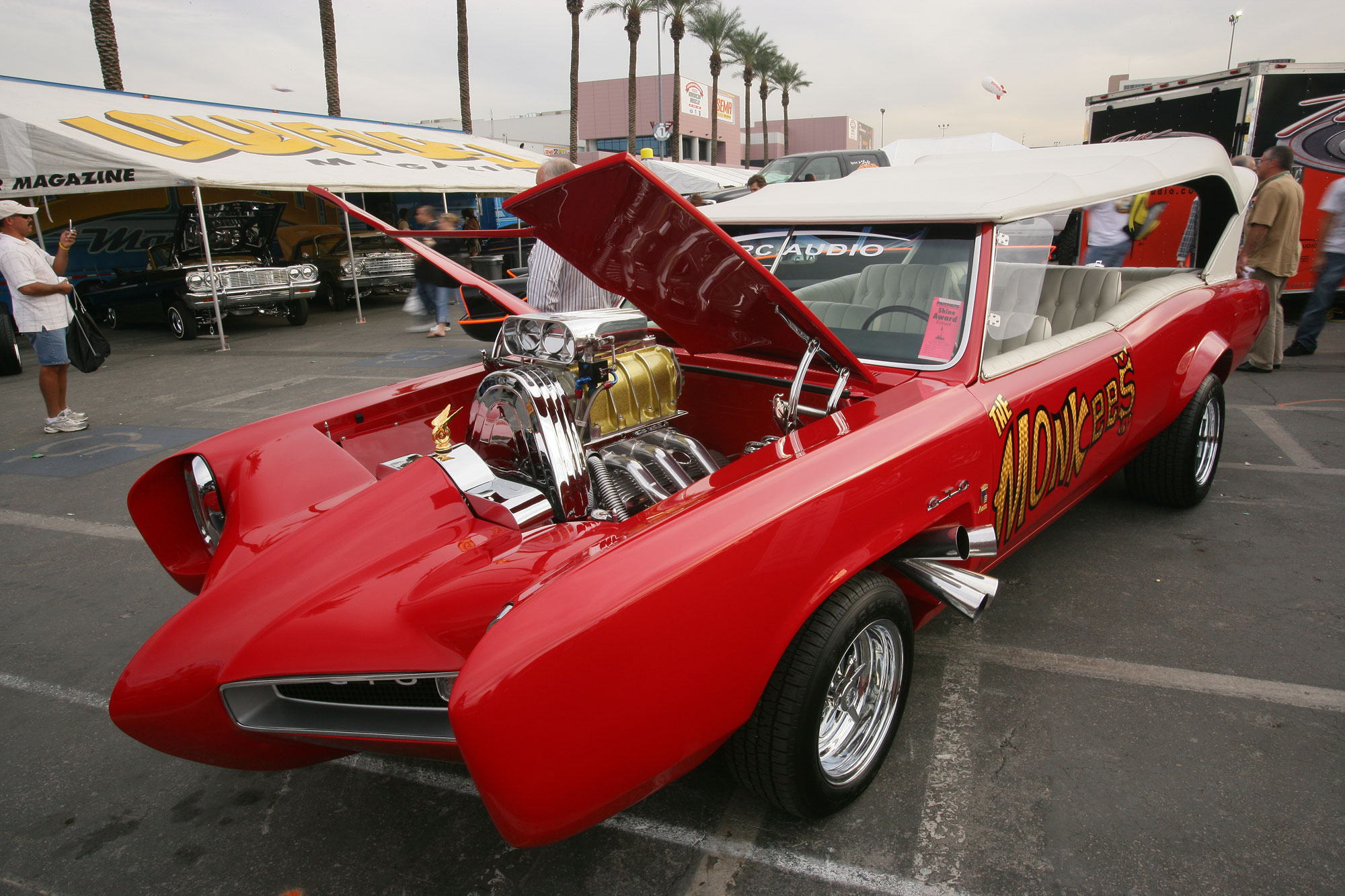 The Monkeemobile, photographed at the 2006 SEMA Show in Las Vegas